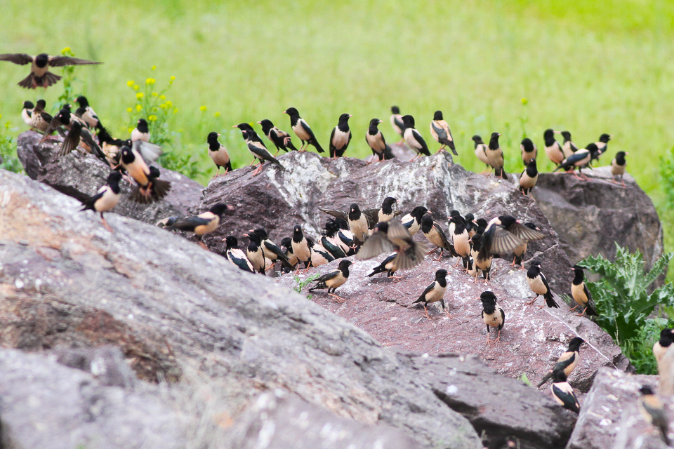 Rosy Starling Pastor roseus, between Almaty and Sorbaluk Lake, Kazakhstan